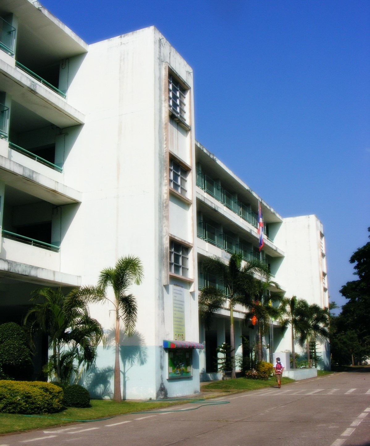 Watklongpho Municipal School Location: Watklongpho Municipal School Mueang Uttaradit, Uttaradit Province, Thailand.